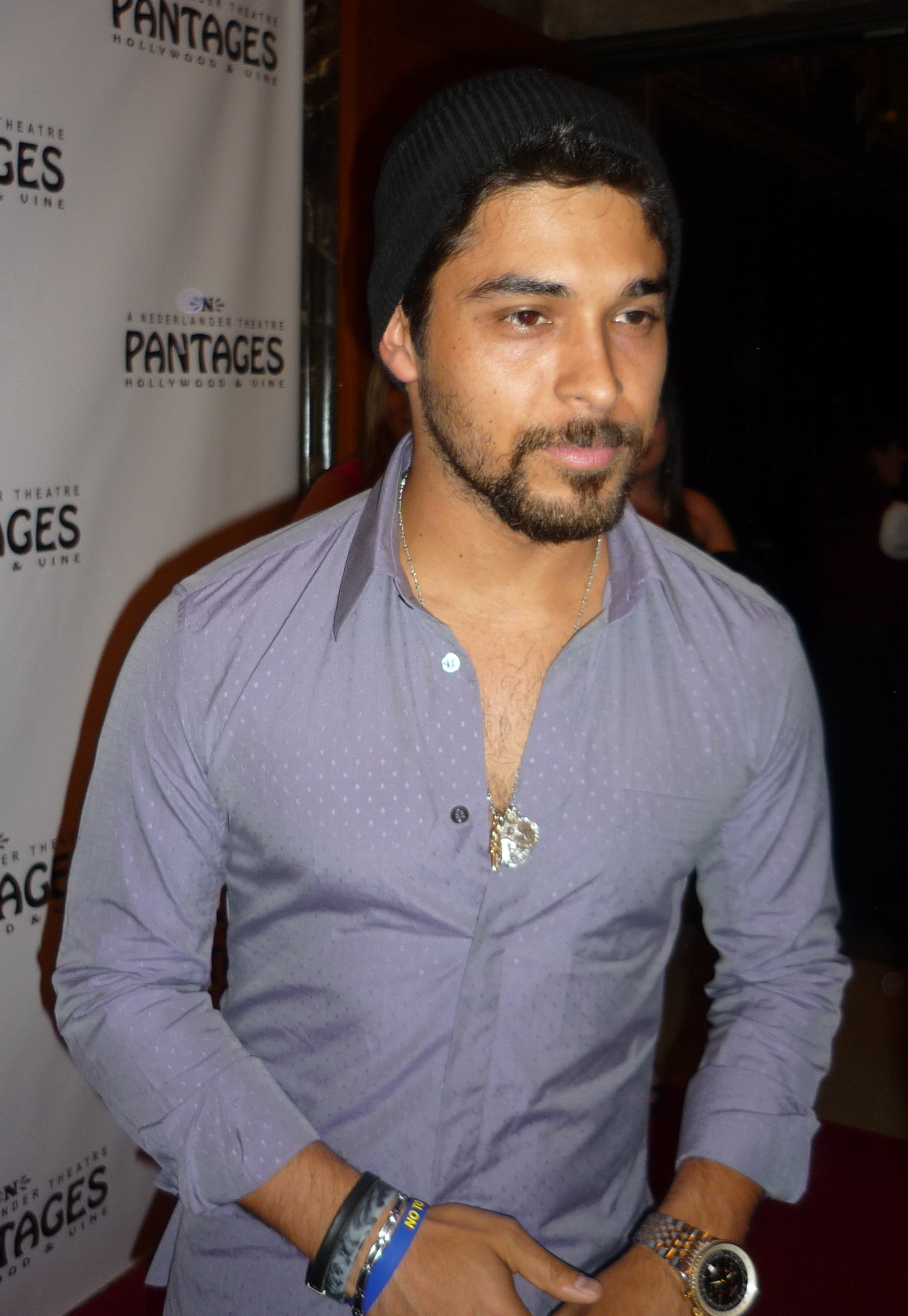 Actor Wilmer Valderrama in June 23, 2010.